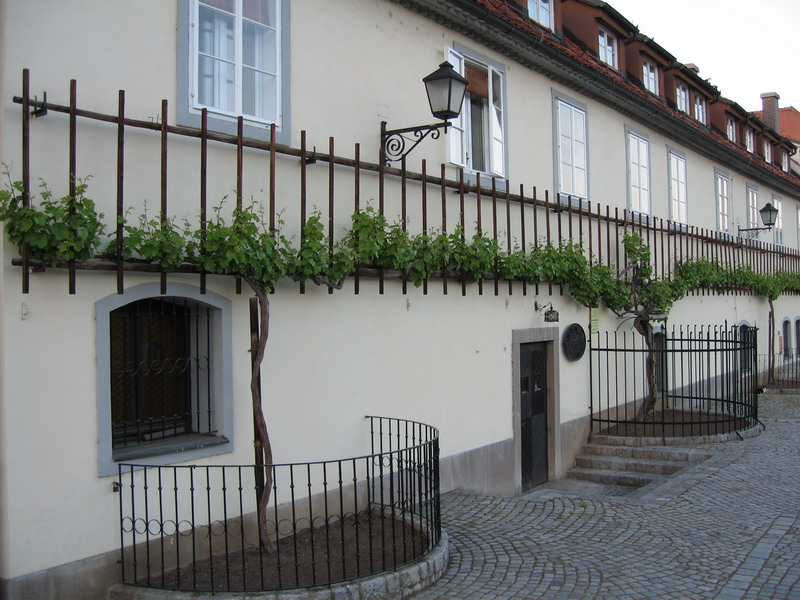 The old Grape Vine in Maribor, oldest living in the world (Guinness Book of Records certified)